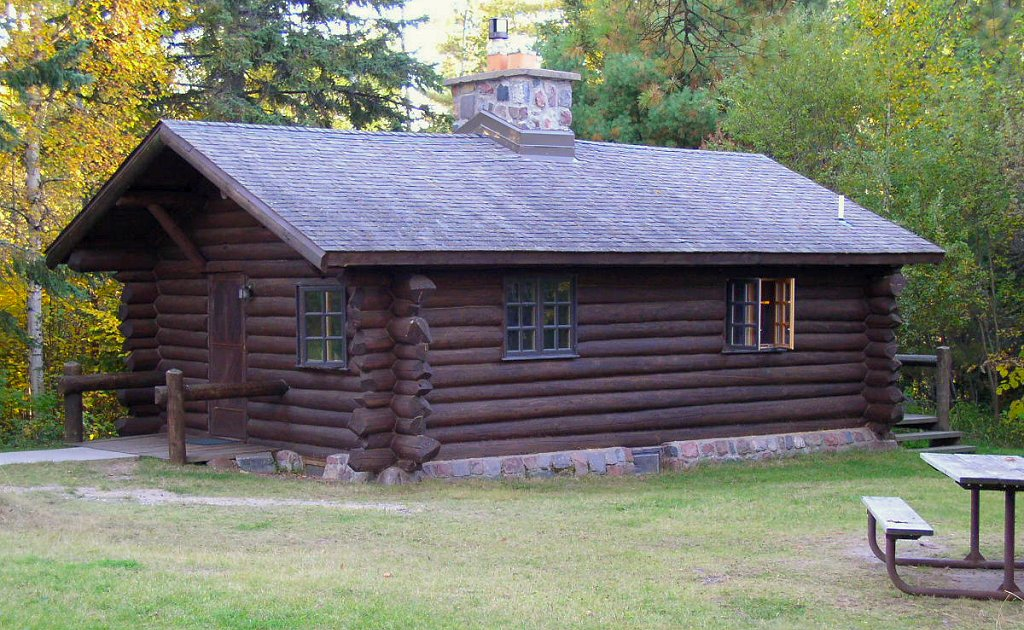 Guest cabin built by the Civilian Conservation Corps, Scenic State Park, MN, USA